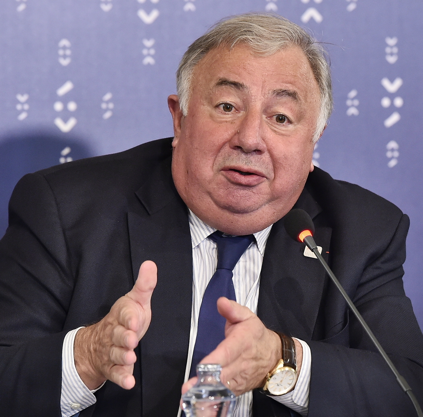 French Senate Mr Gérard Larcher, President Photo Rastislav Polak